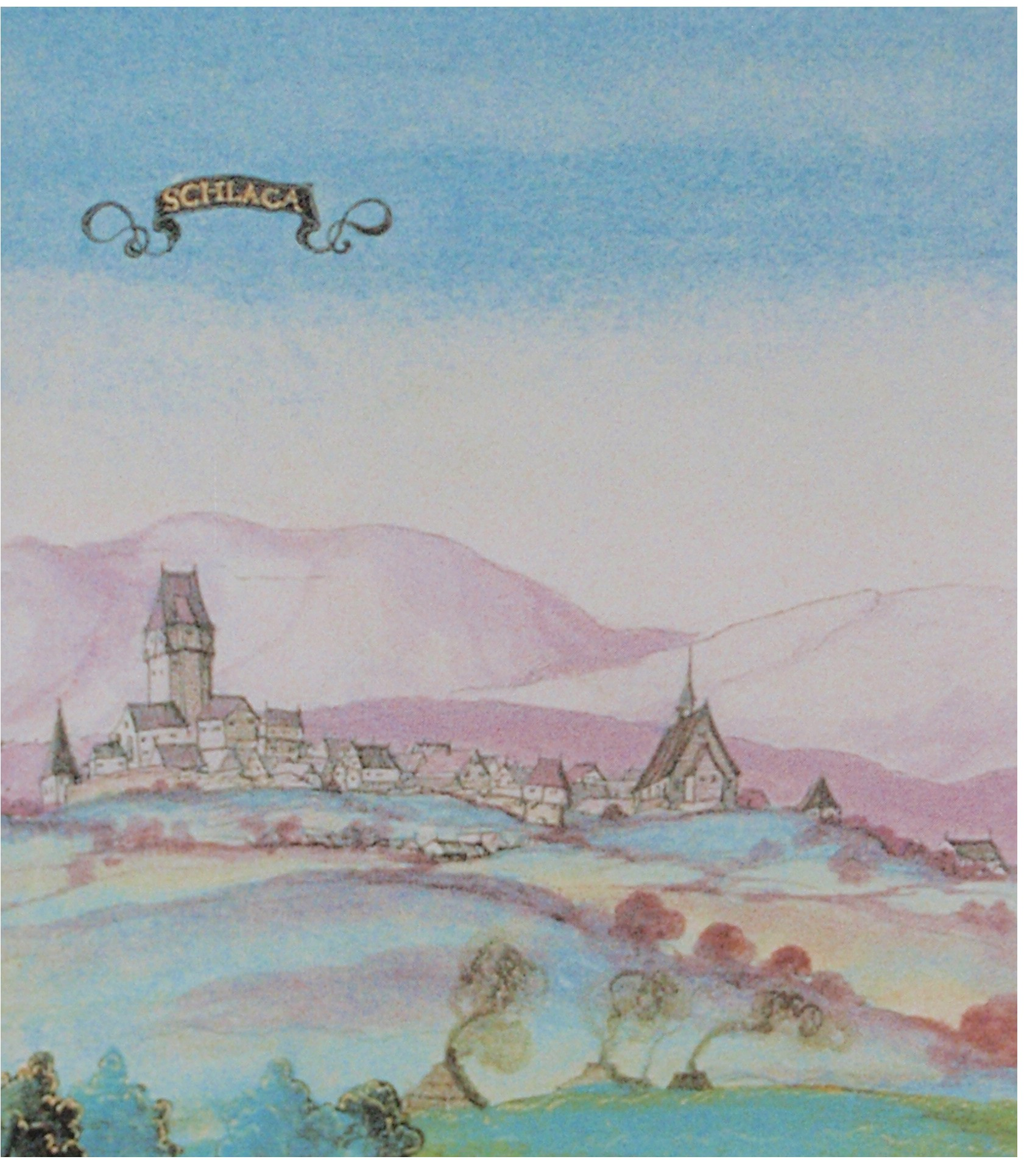 Part of an aquarel (XVI century) of an unknown German artist depicting the panorama of Będzin, Olkusz and Sławków (Poland), Universitätsbibliothek Würzburg.